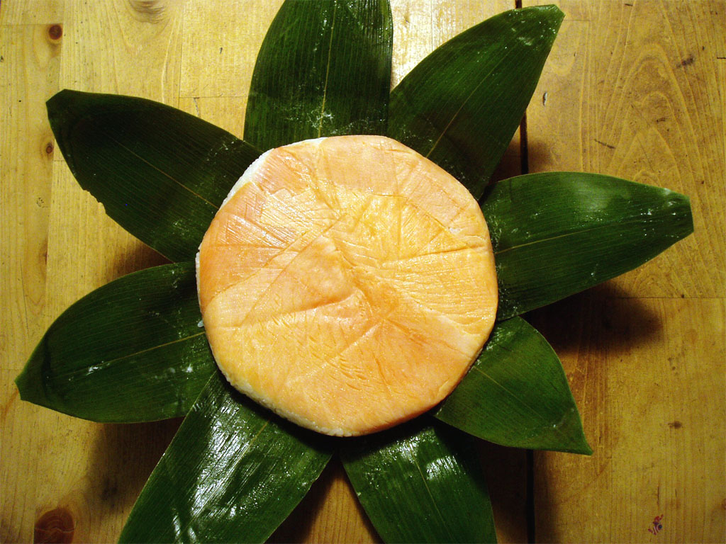 Masuzushi